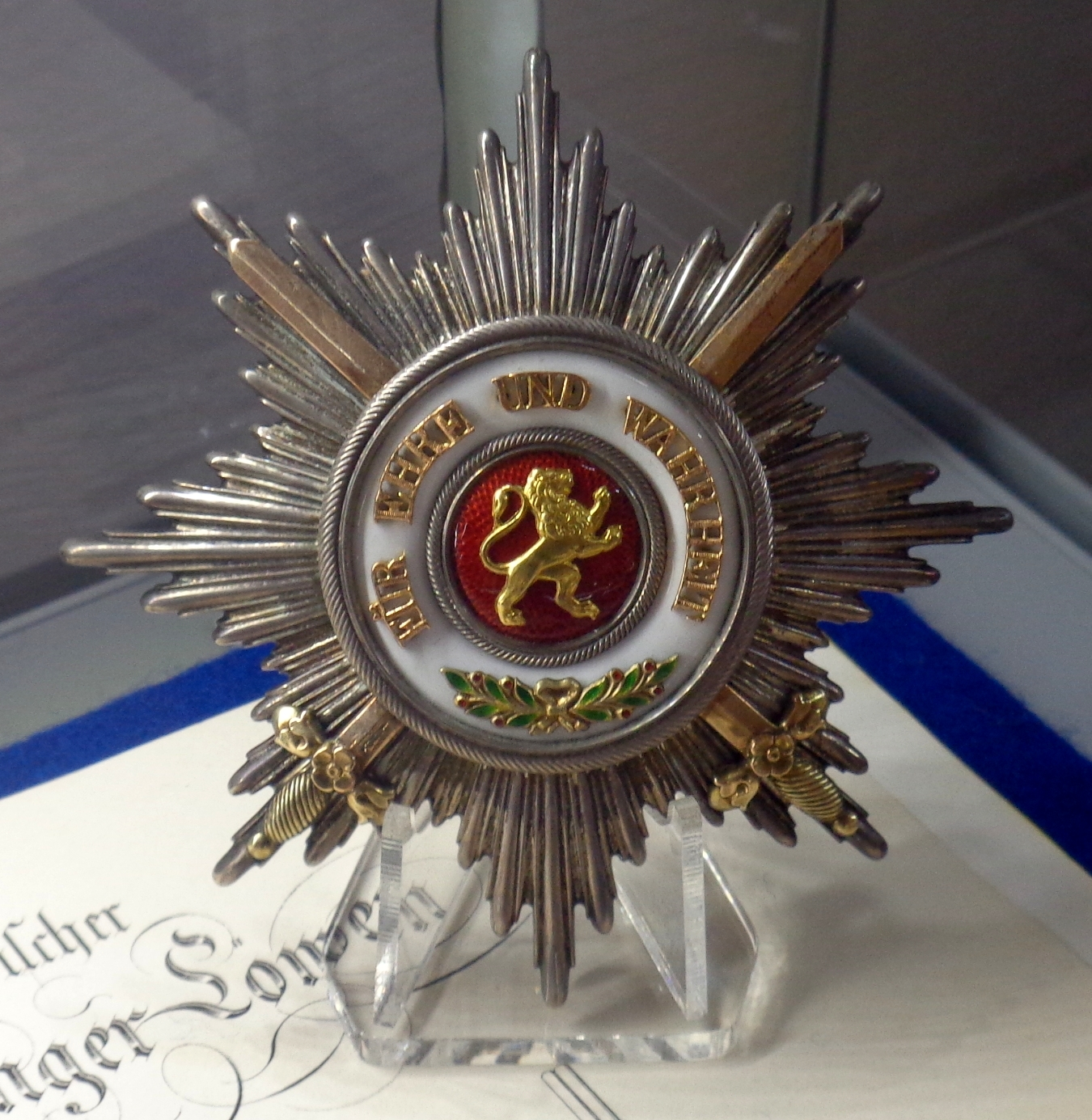 Order of the Lion of Zaeringen, star of Grand Cross with swords, c.1900. Grand Duchy of Baden. The exhibition of the Tallinn Museum of Orders of Knighthood, Estonia.